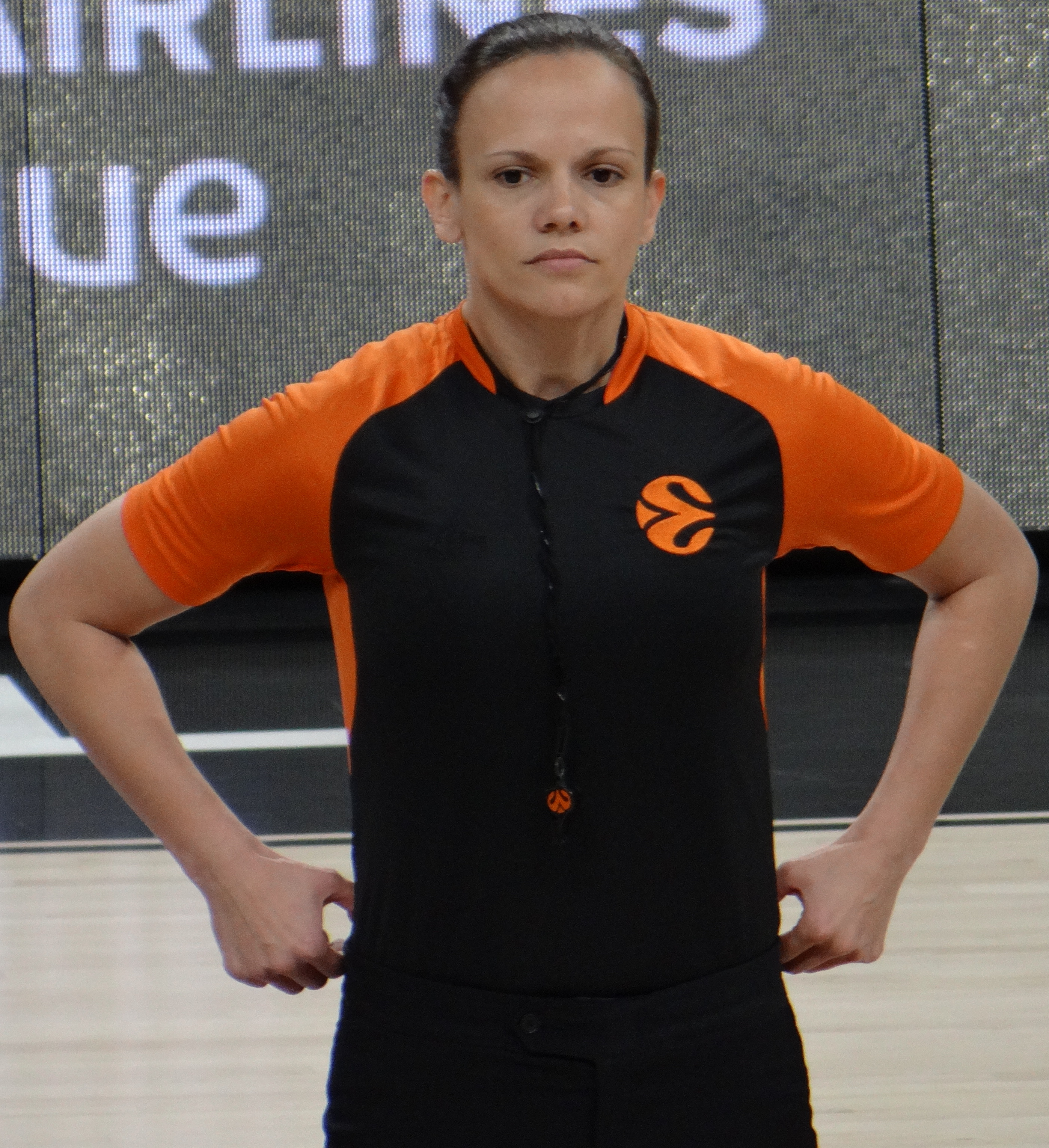 Anne Panther Anadolu Efes S.K. vs Fenerbahçe Men's Basketball EuroLeague 20180119